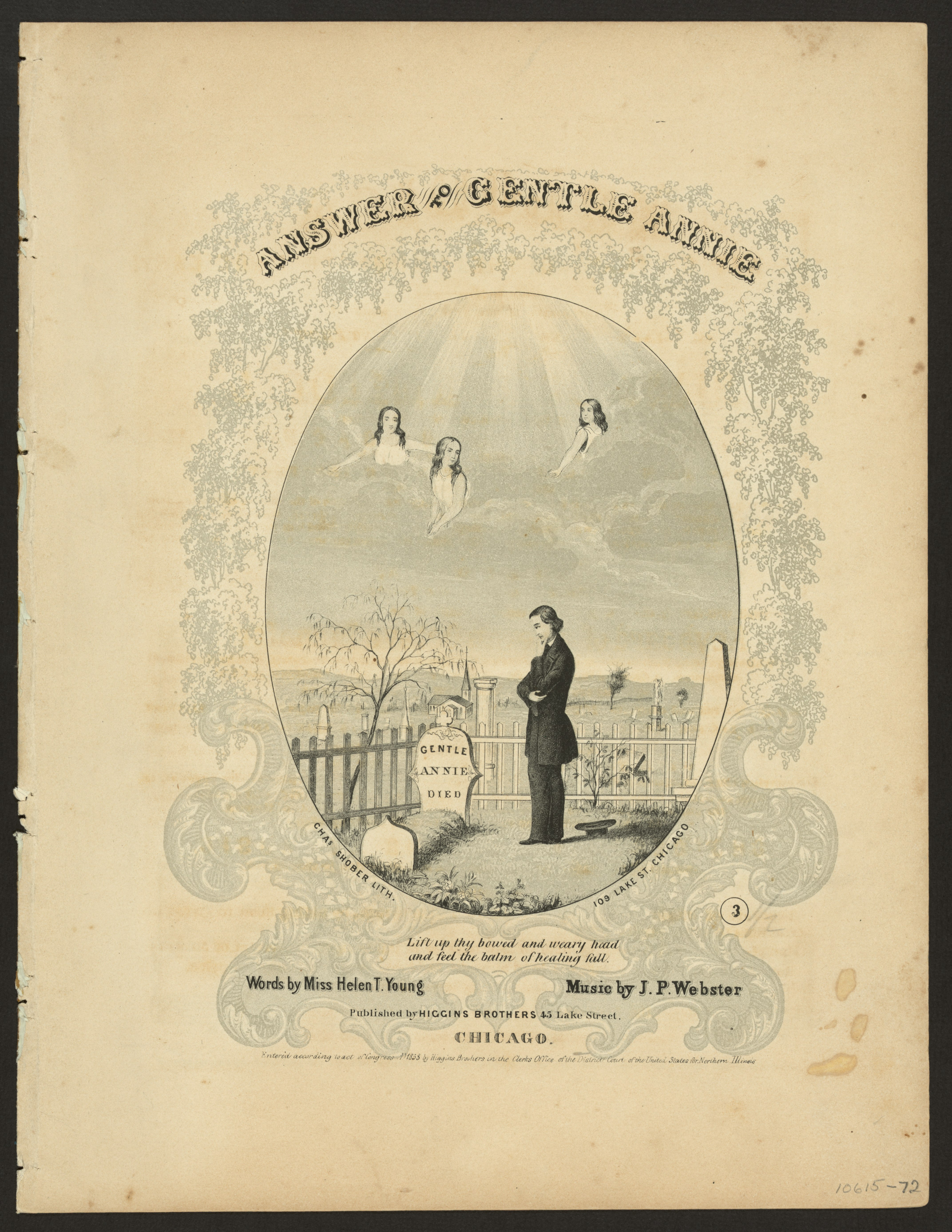 Title: Answer to Gentle Annie / Chas. Shober Lith. Abstract/medium: 1 print : lithograph ; 34.3 x 26.2 cm. (sheet)